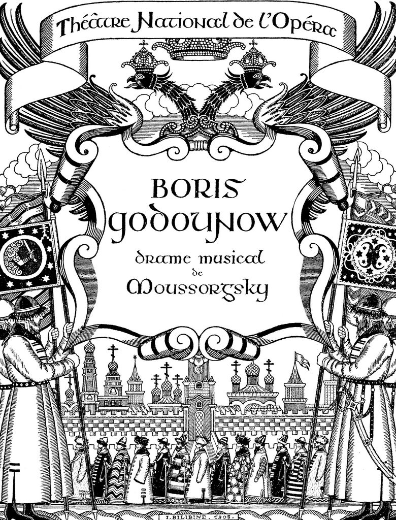 Programme cover for Musorgsky's "Boris Godunov" opera. Ivan Bilibin, 1908.